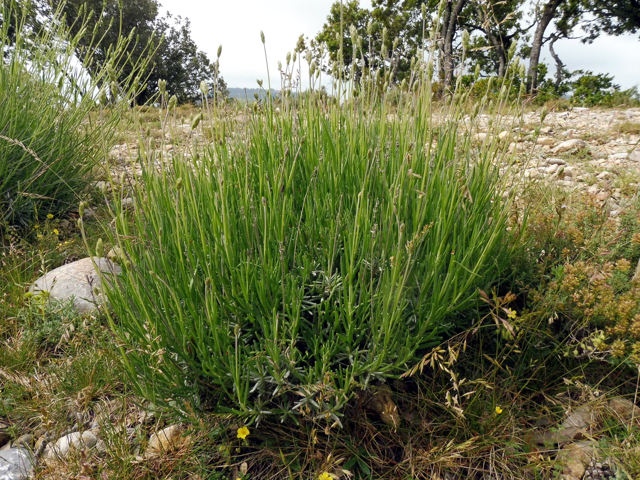 Lavandula angustifolia. In serrat de Sòbol (Solsonès -Catalunya). To 1.290 m altitude This is a a photo of a natural area in Catalonia, Spain, with id: ES510197